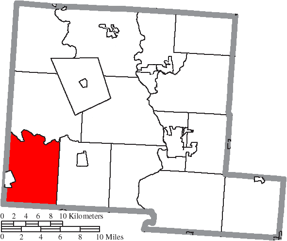 Map of the municipal and township boundaries of Pickaway County, Ohio, United States, as of the 2000 census, with the location of Perry Township highlighted. Township borders are shown only in unincorporated areas in order to differentiate incorporated and unincorporated areas more clearly.